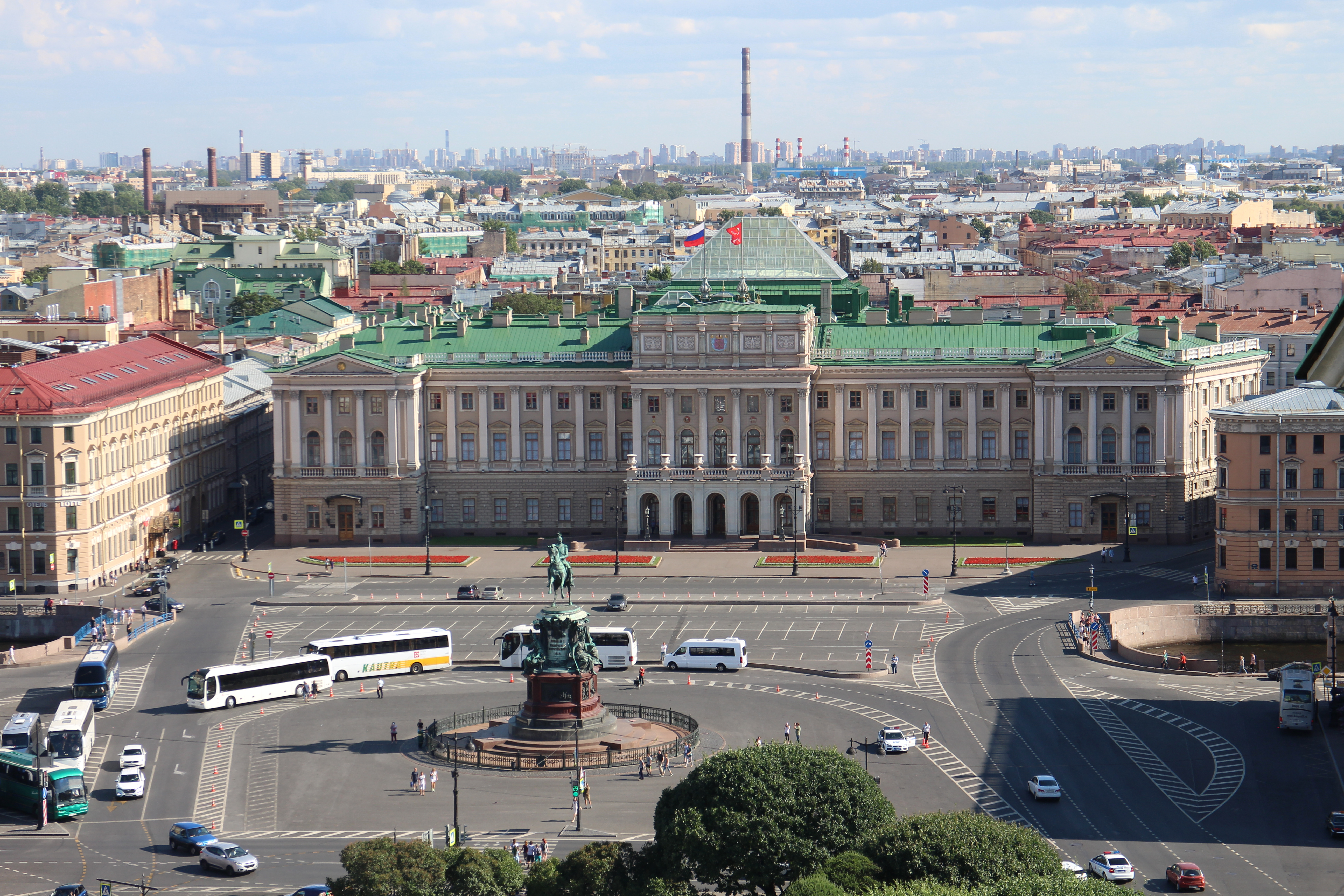 St Isaac's Square - views from Saint Isaac's Cathedral